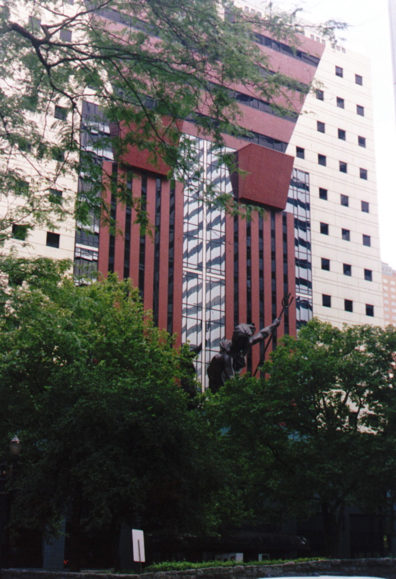 Portland Public Services Buildings by Michael Graves